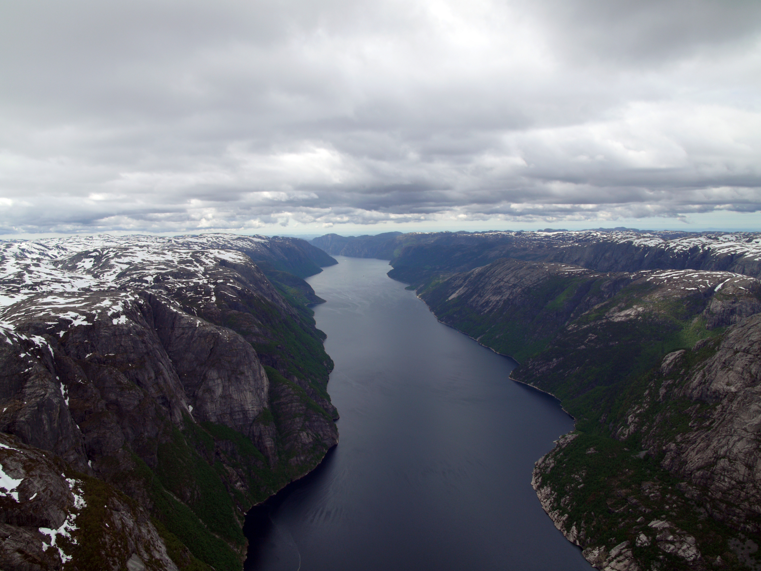 Lysefjorden, Rogaland, Norway. Looking W.